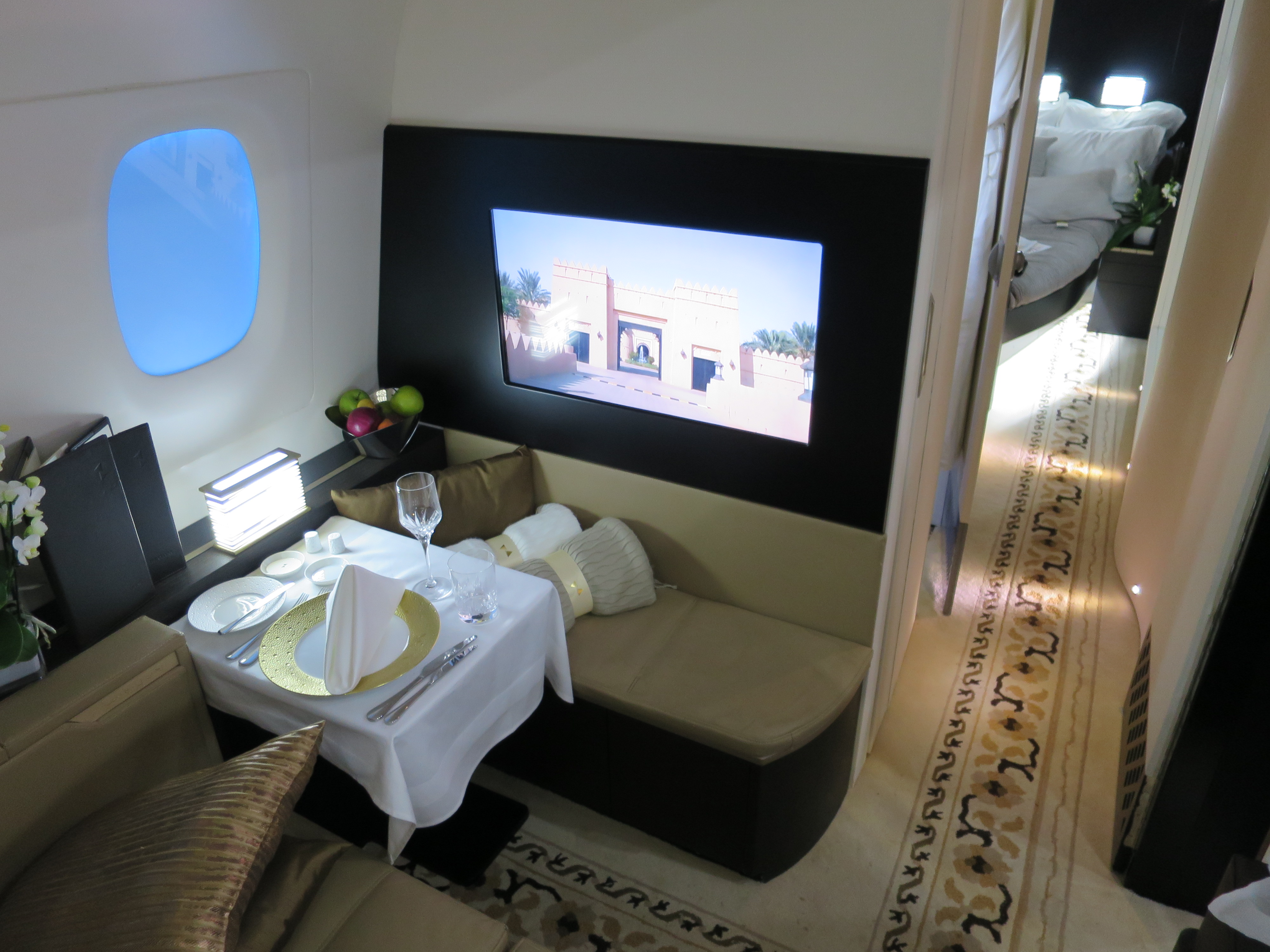 Etihad Airways aircraft interiors demo ITB 2017.